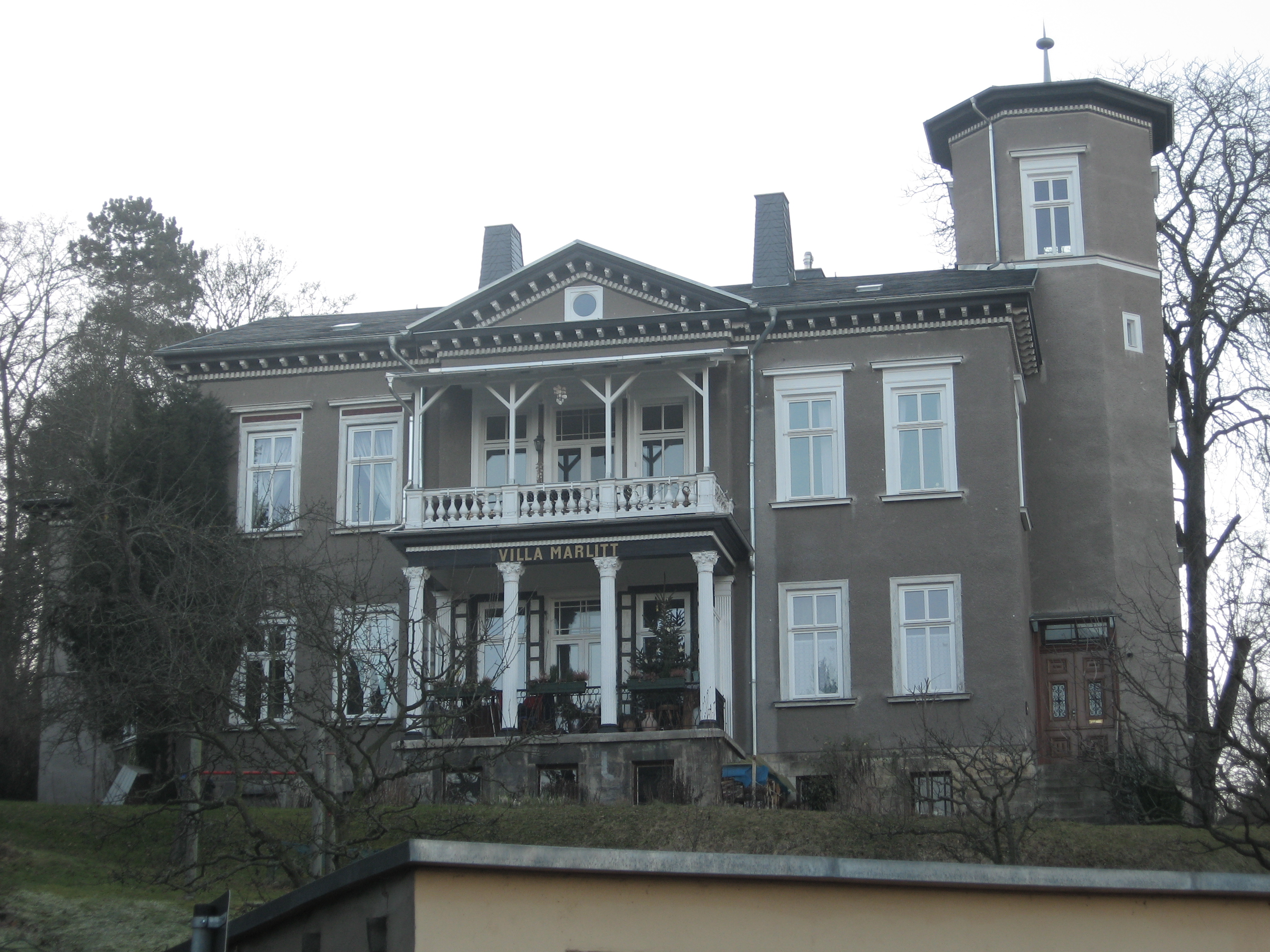 Villa Marlitt Arnstadt, Marlittstraße 9